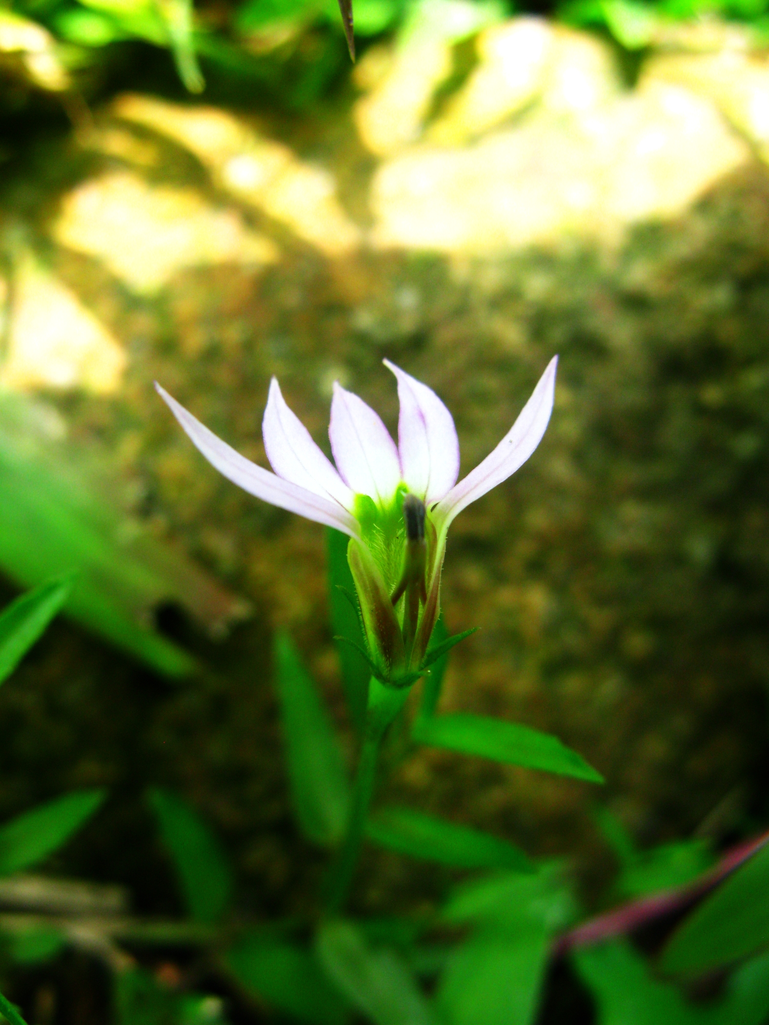 Lobelia chinensis, taken in Hong Kong.